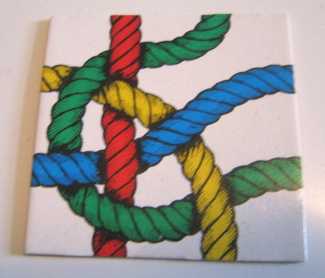 a piece of the rubik's tangle puzzle